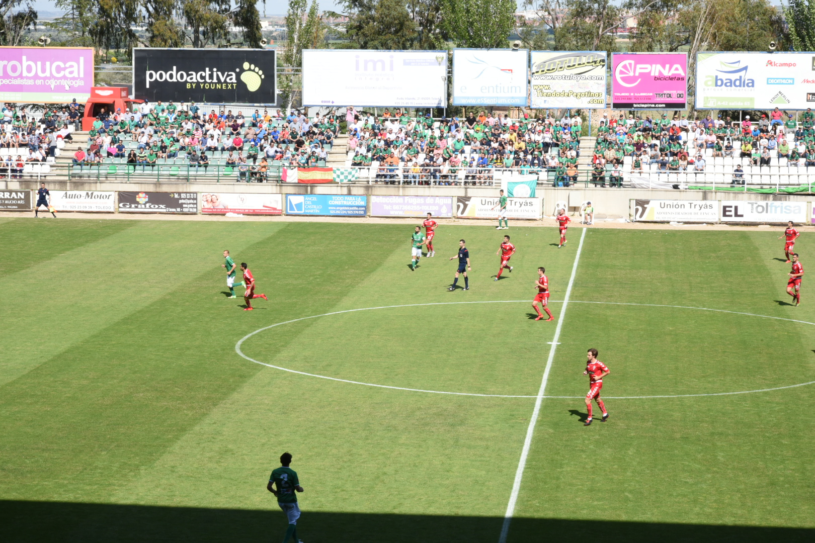 El presidente de Castilla-La Mancha, Emiliano García-Page, ha asistido esta tarde, en el Estadio toledano del Salto del Caballo, al partido de play-off de ascenso disputado entre el Club Deportivo Toledo y el Real Murcia.Fotos.(José Ramón Márquez)JCCM.